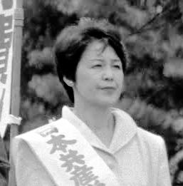 Kazuo Shii, President of the Japanese Communist Party, made a campaign speech for Satoshi Miyauchi and Tomoko Kami, Candidates for Members of the House of Councillors, in Hokkaidō on July 18, 2001.